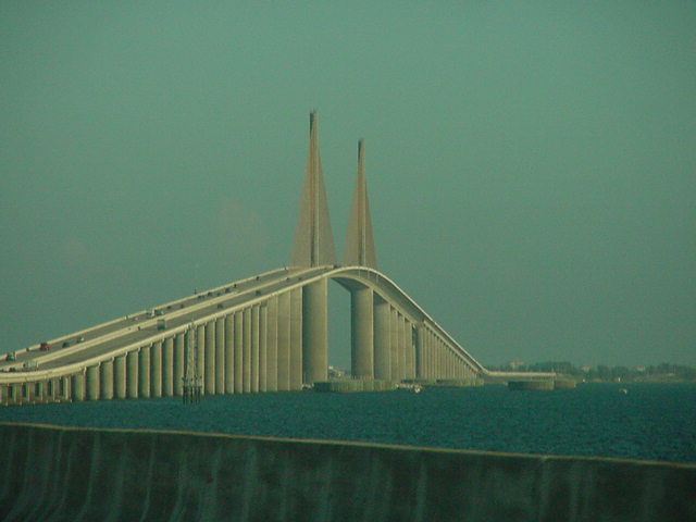 I created this photo while on vacation in Tampa Florida in July 2006.